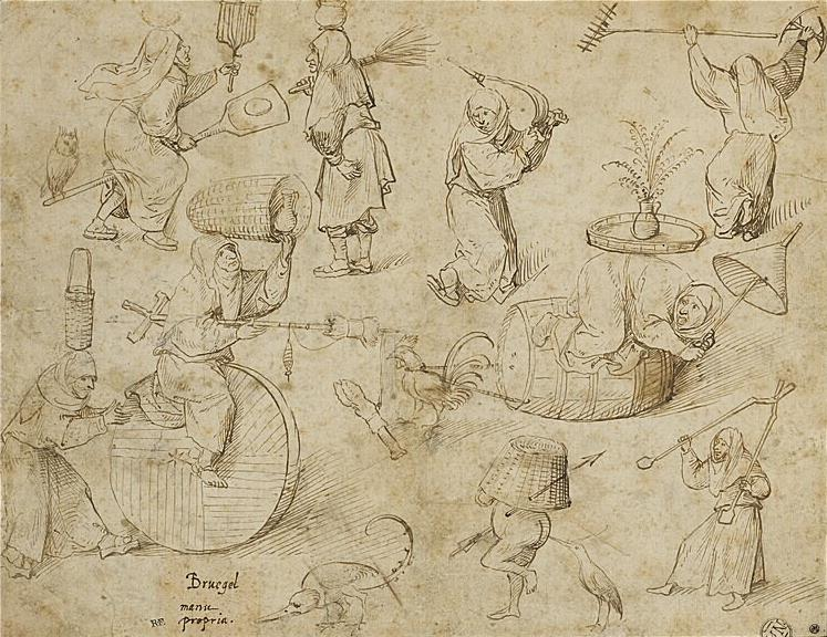 Single-sided drawing. Witches may also be women celebrating carnival.